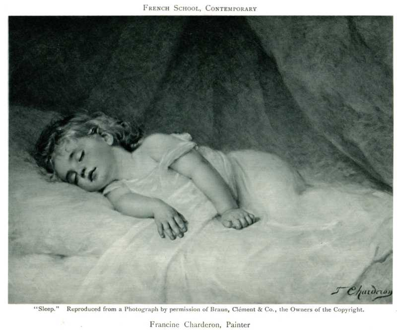 1905 print after page 229 "Sleep", of Women painters of the world, from the time of Caterina Vigri, 1413-1463, to Rosa Bonheur and the present day, by Walter Shaw Sparrow, The Art and Life Library, Hodder & Stoughton, 27 Paternoster Row, London